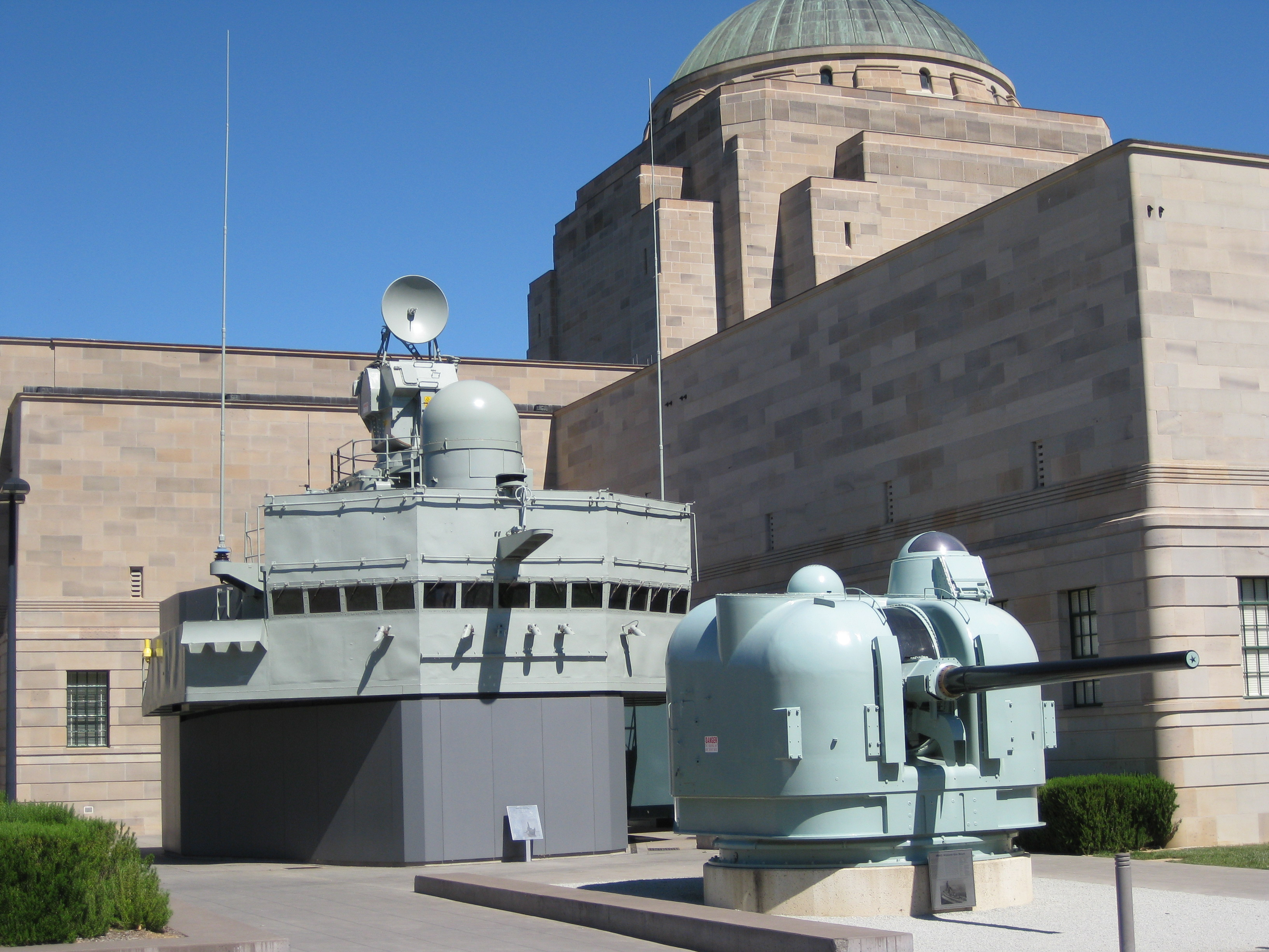 HMAS Brisbane's bridge and forward 5-inch gun turret on display at the Australian War Memorial in Canberra. See also File:Kangaroos against Gun Turret.JPG for same view in January 2006 before the addition of HMAS Brisbane's bridge.